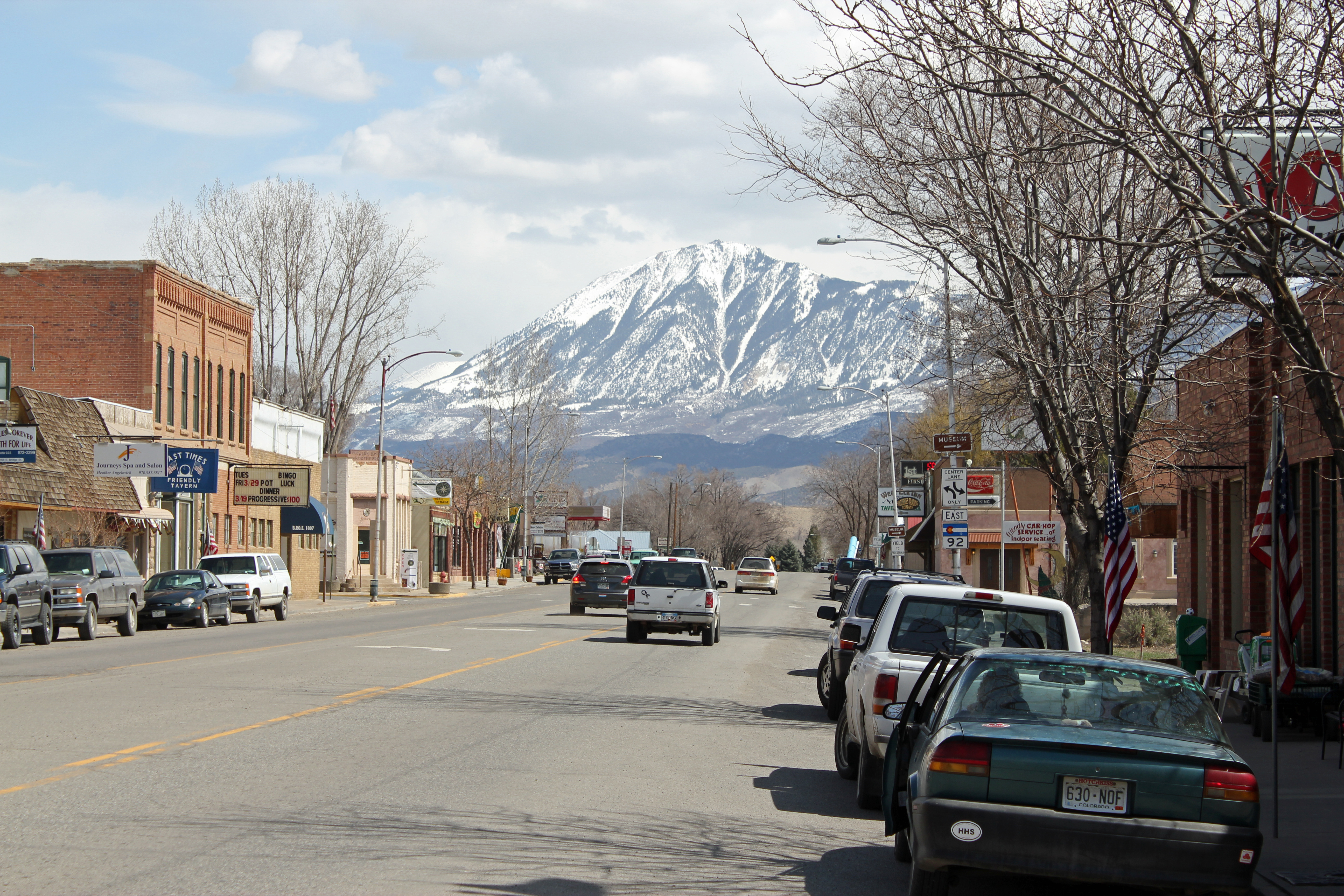 East Bridge Street in Hotchkiss, Colorado. The Mountain is Mt. Lanborn. East Bridge Street is also Colorado State Highway 92.